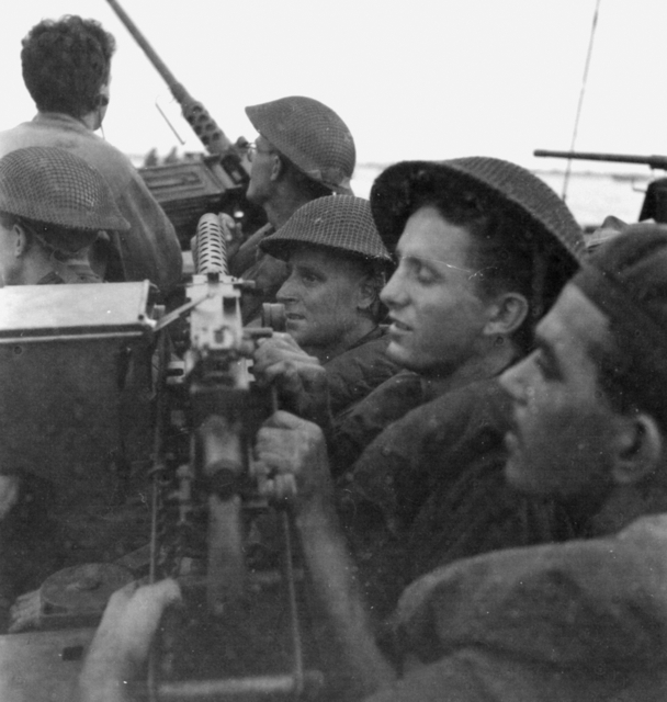 Soldiers from the Australian 2/43rd Battalion on board a landing vehicle tracked during the landing on Labuan Island on 10 June 1945.